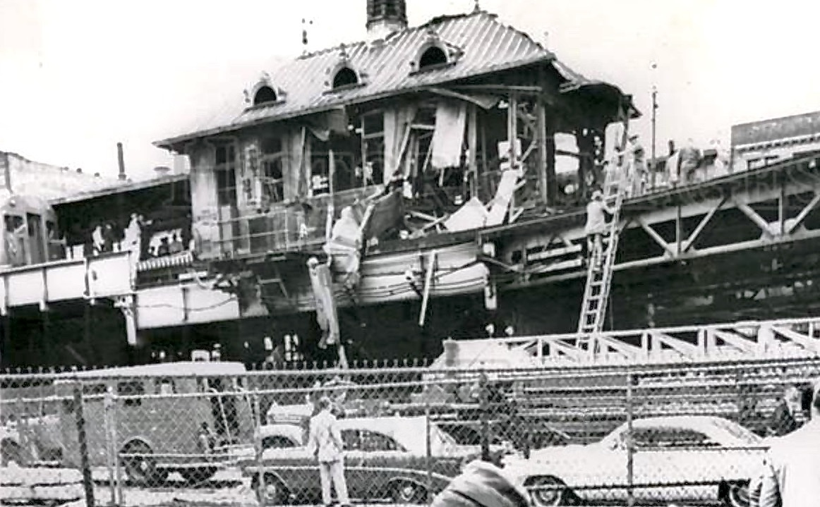 Aftermath of the 1959 bombing of the North Station elevated station